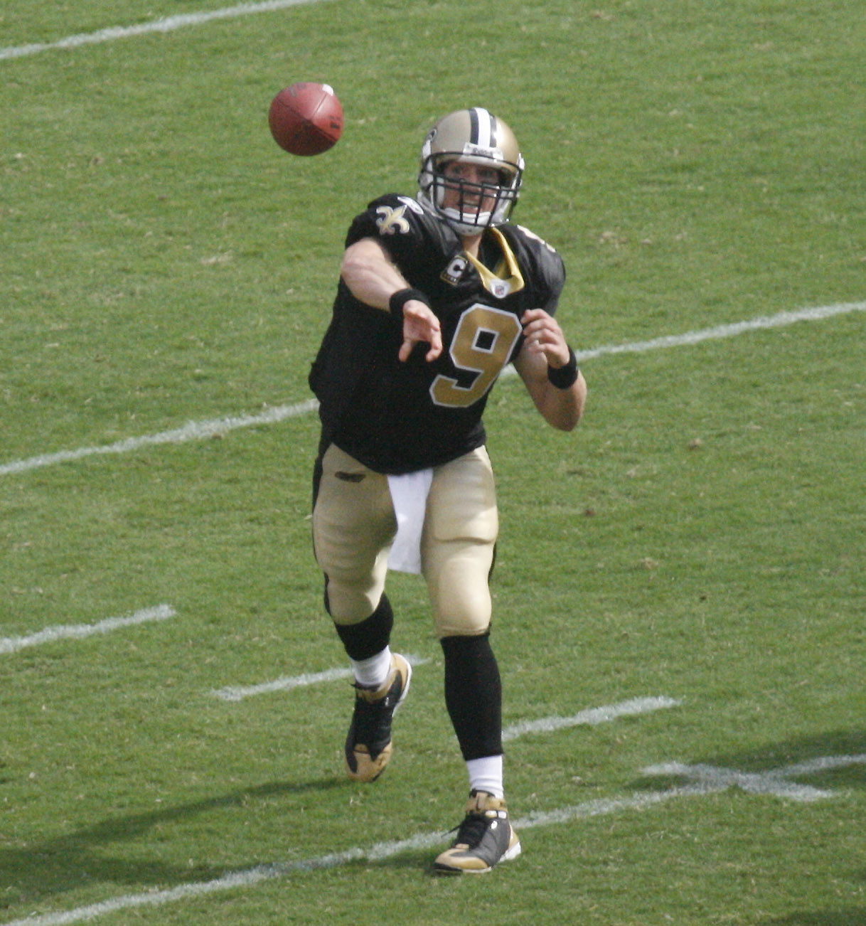 Washington Redskins vs. New Orleans Saints at Fed Ex Field...Final Score: Redskins 29 / Saints 24